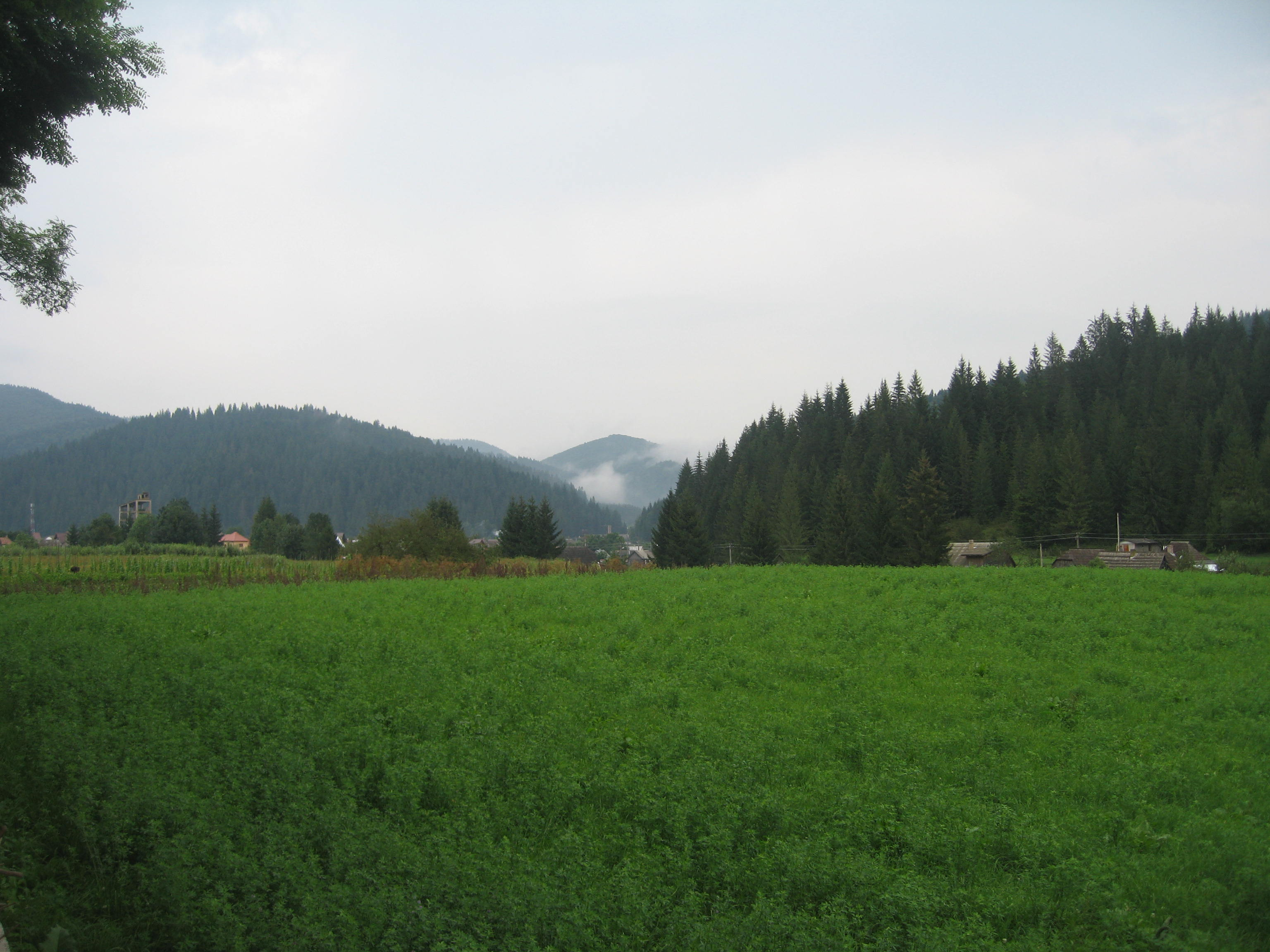 Image from Putna, Suceava County, Romania